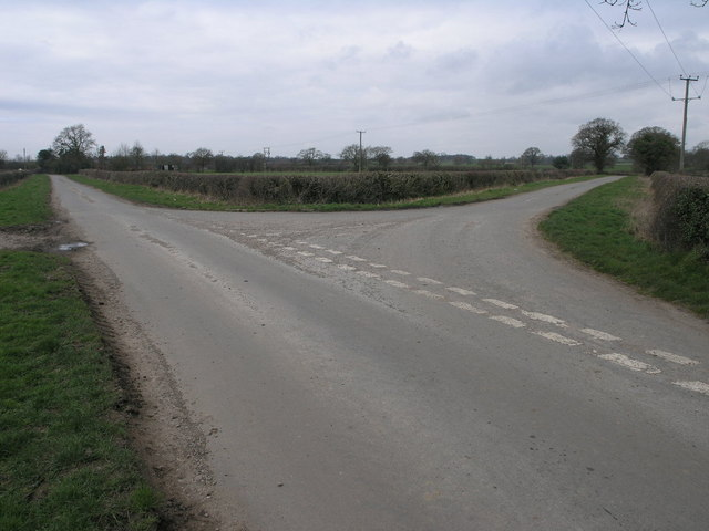 Aston Heath Junction